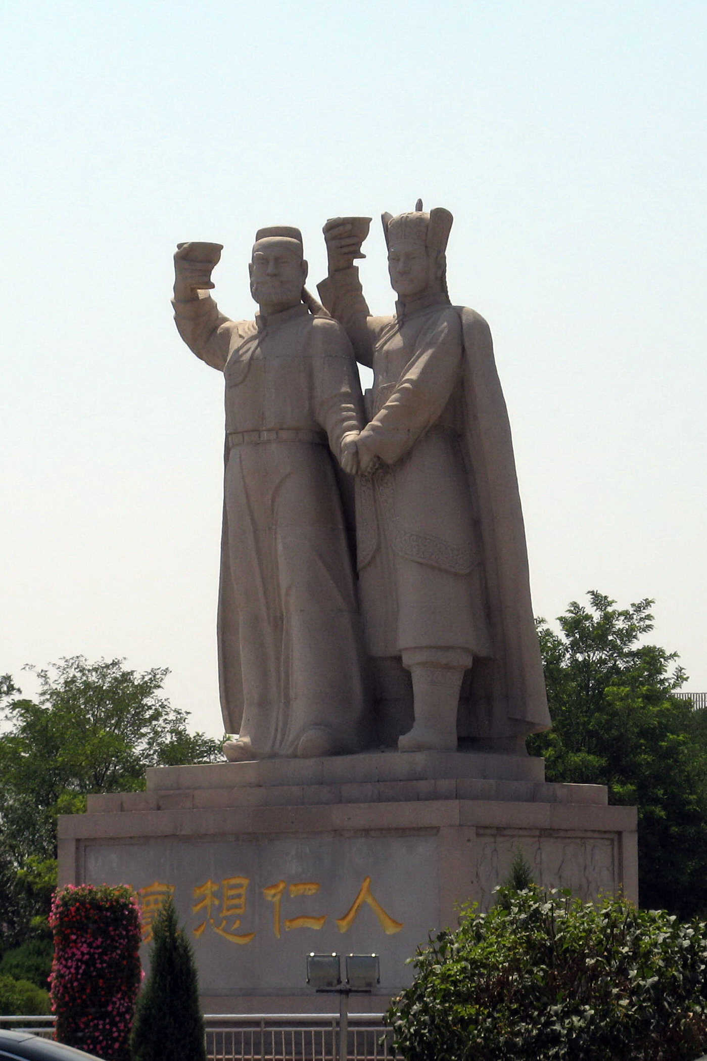 Yearning the kind man (Statue of Li Keyong and Yelu Abaoji) in Yingbin Square, Huairen County, Shanxi, China中文（中国大陆）: 中国山西省怀仁县迎宾广场“怀想仁人”雕塑